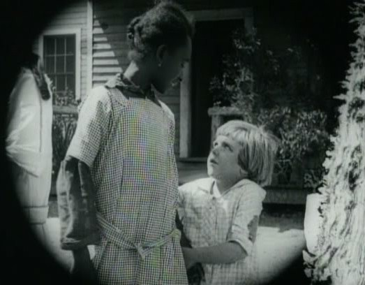 Ernestine Jones (left) & Nora Dempsey in When Little Lindy Sang - cropped screenshot